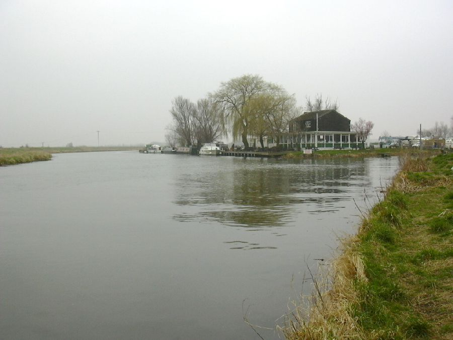 Confluence of the River Cam and the River Great Ouse, with the Fish and Duck Inn. Taken by self, March 19 2005.